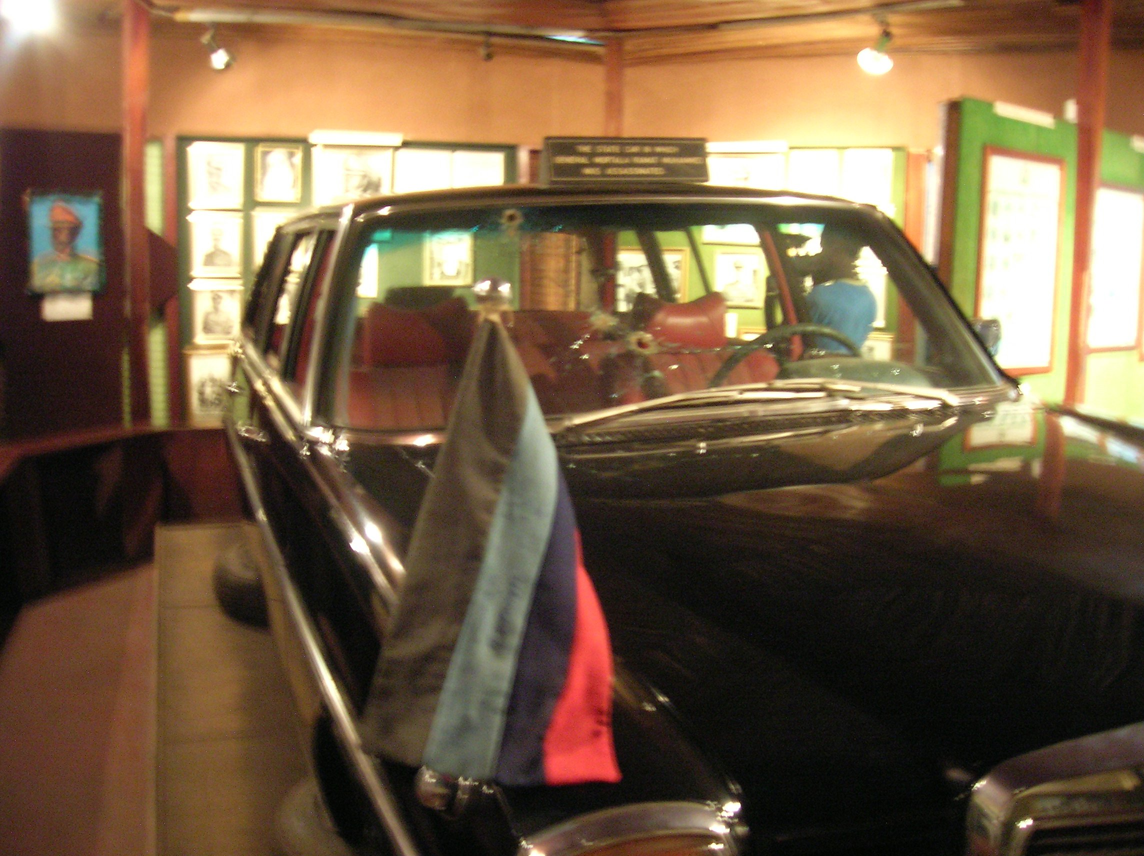 Car in which Nigerian military leader Murtala Mohammed was assassinated; note bullet holes in glass. Displayed at the National Museum in Lagos, Nigeria. Taken by Shiraz Chakera, found at Flickr